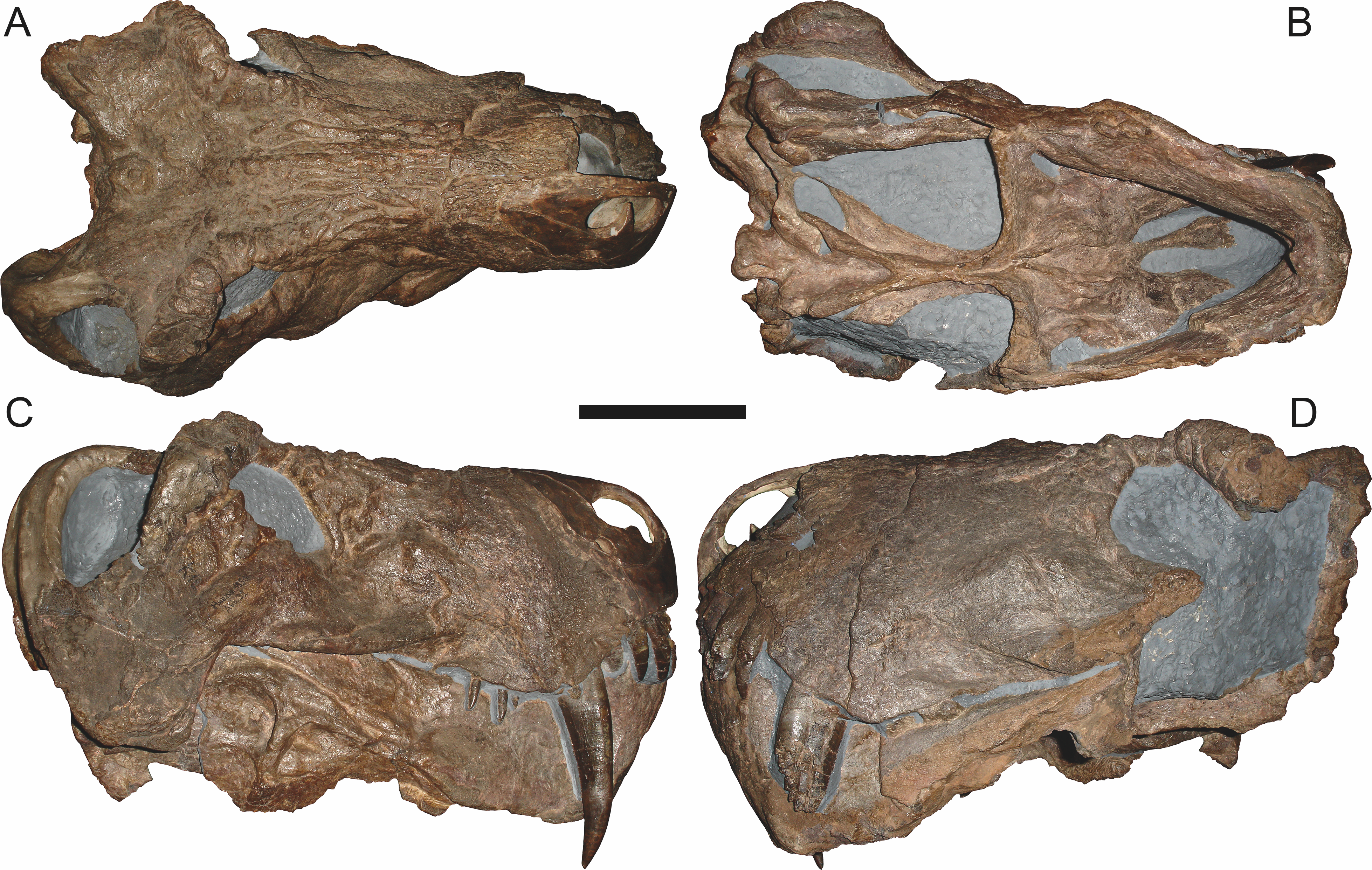 Referred specimen (GPIT K16) of Dinogorgon rubidgei Broom, 1936 in (A) dorsal, (B) ventral, (C) right lateral, and (D) left lateral views. Holotype of Dinogorgon quinquemolaris Huene, 1950. Scale bar equals 10 cm.